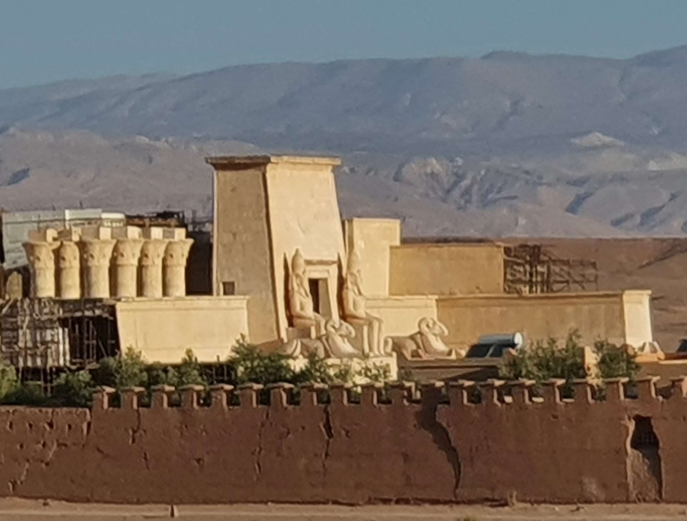 Atlas Corporation Studios